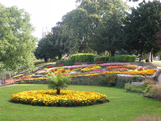 Stapenhill Gardens Mid August 2009. There is a new garden feature being built just off to the left, you can see the safety fencing.